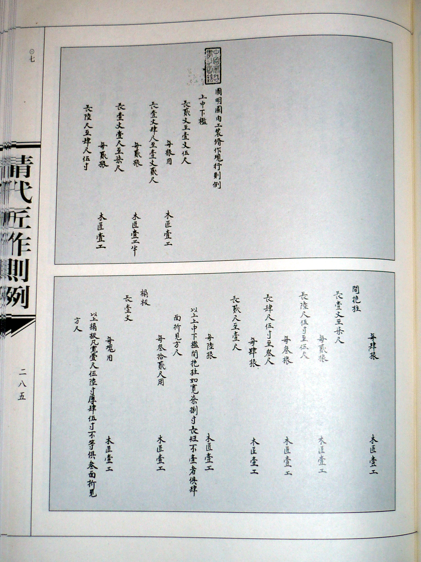 Old Summer Palace Interior Decoration Regulation